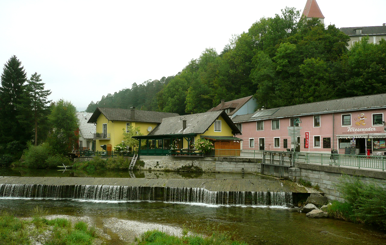 Pielach river in the Kirchberg village, Lower Austria